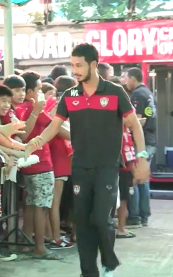 Weerawut Kayem before game Thai Premier League Ostospa Saraburi - Muangthong United